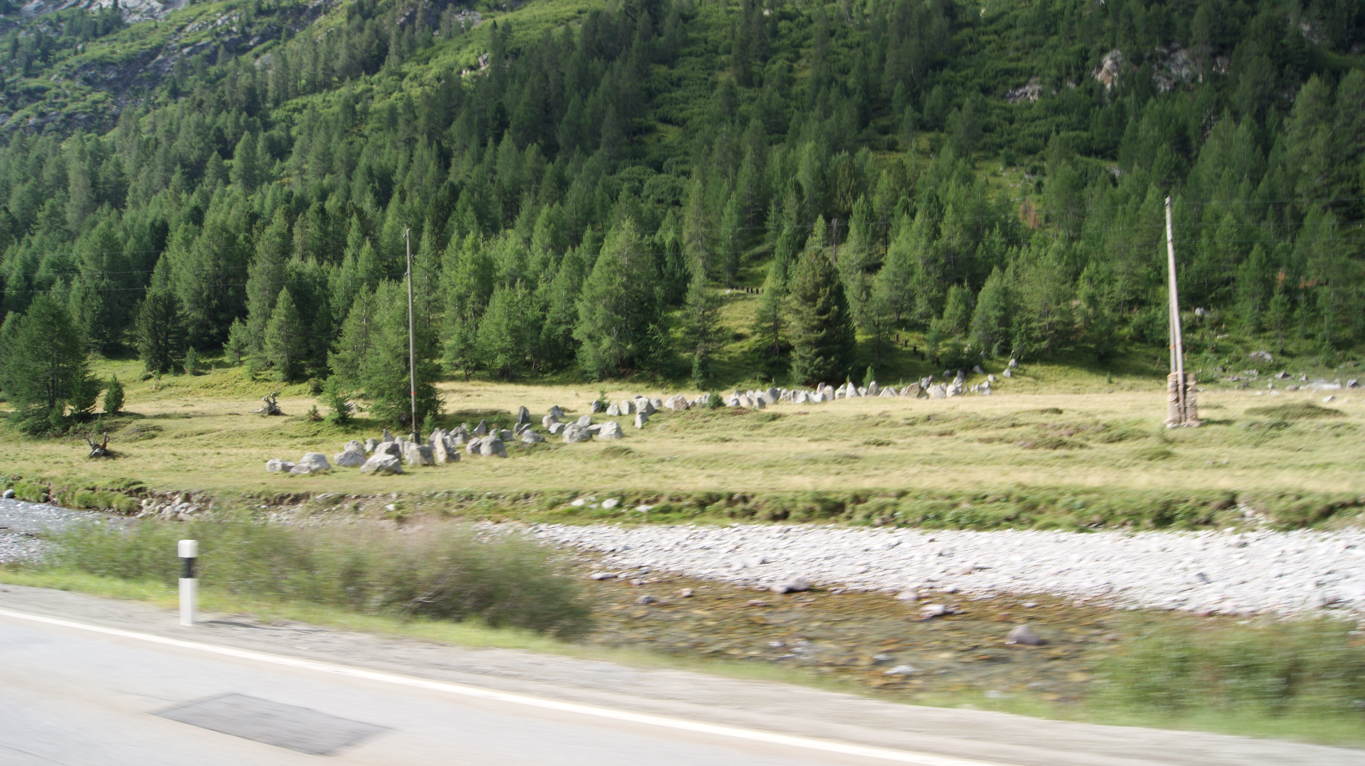 Sperrstelle (tank barrier) Berninahaeuser (Army designation No. 1268/1269, GPH Berninahäuser (natural stone blocks) T 4045) was a defensive position of the Swiss Army. It is located below Bernina Suot (formerly Bernina houses) on the road over the Bernina Pass into the Puschlav and to Italy. The lock was built from 1936 to 1939. The tank barrier consists of three rows of concrete natural stones. View from the hiking path Morteratsch to the Bernina Pass.